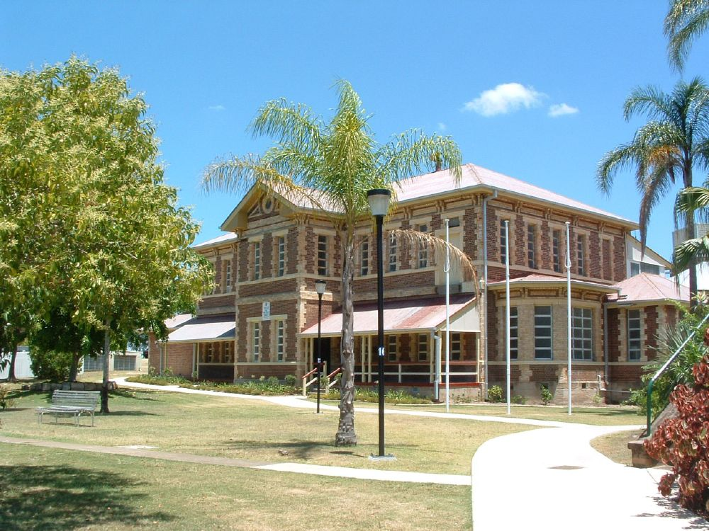 Wolston Park Hospital Complex - Bostock (2001)